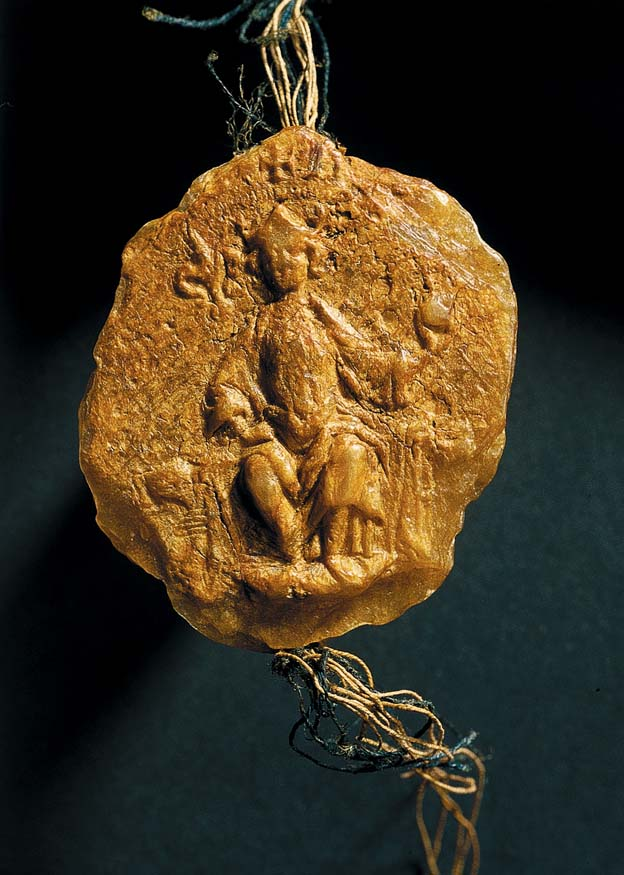 Seal of Mindaugas. The seal affixed to a 1255 treaty is possibly a forgery